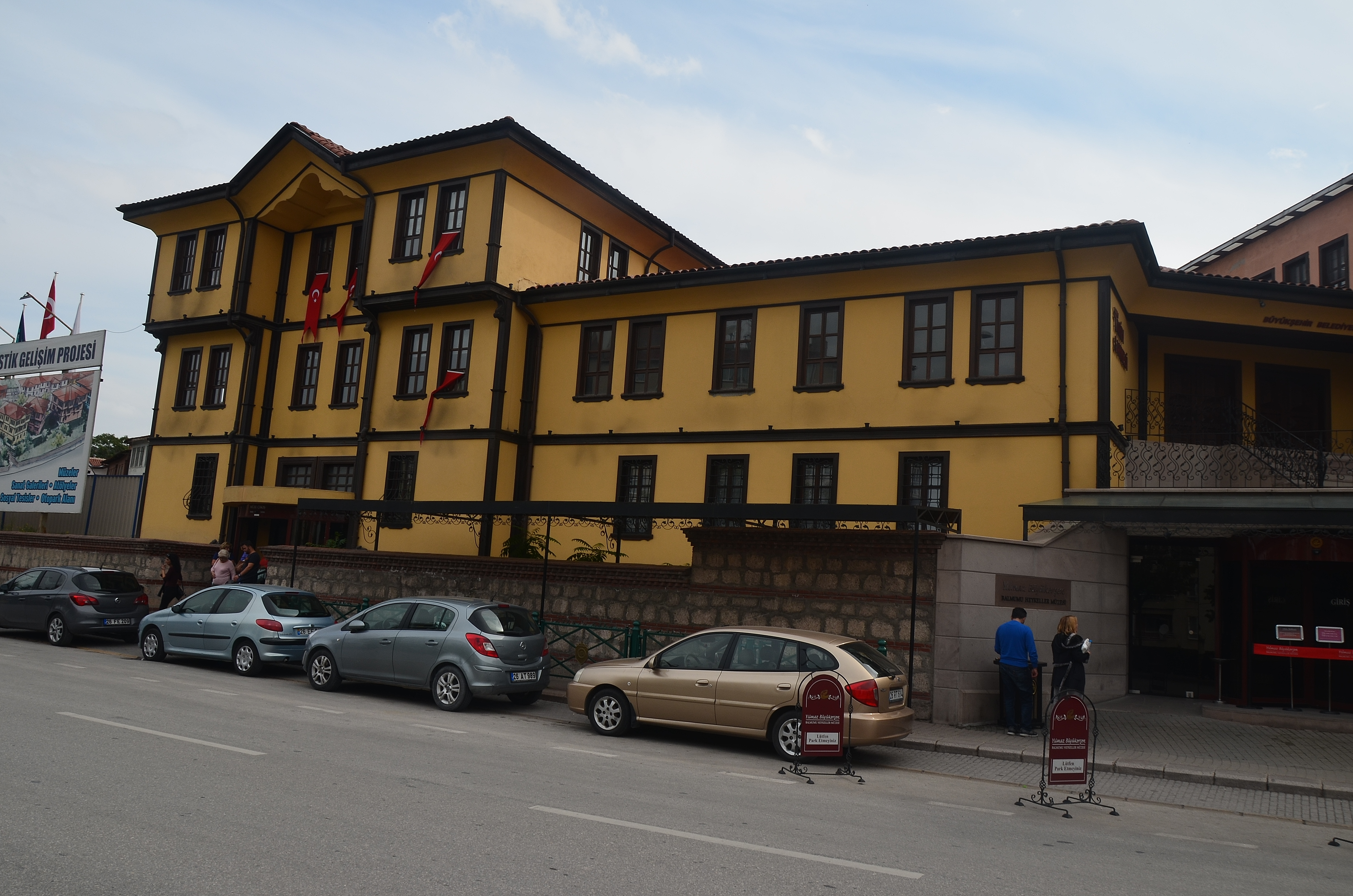 Yılmaz Büyükerşen Wax Musuem in Odunpazarı, Eskişehir, Turkey